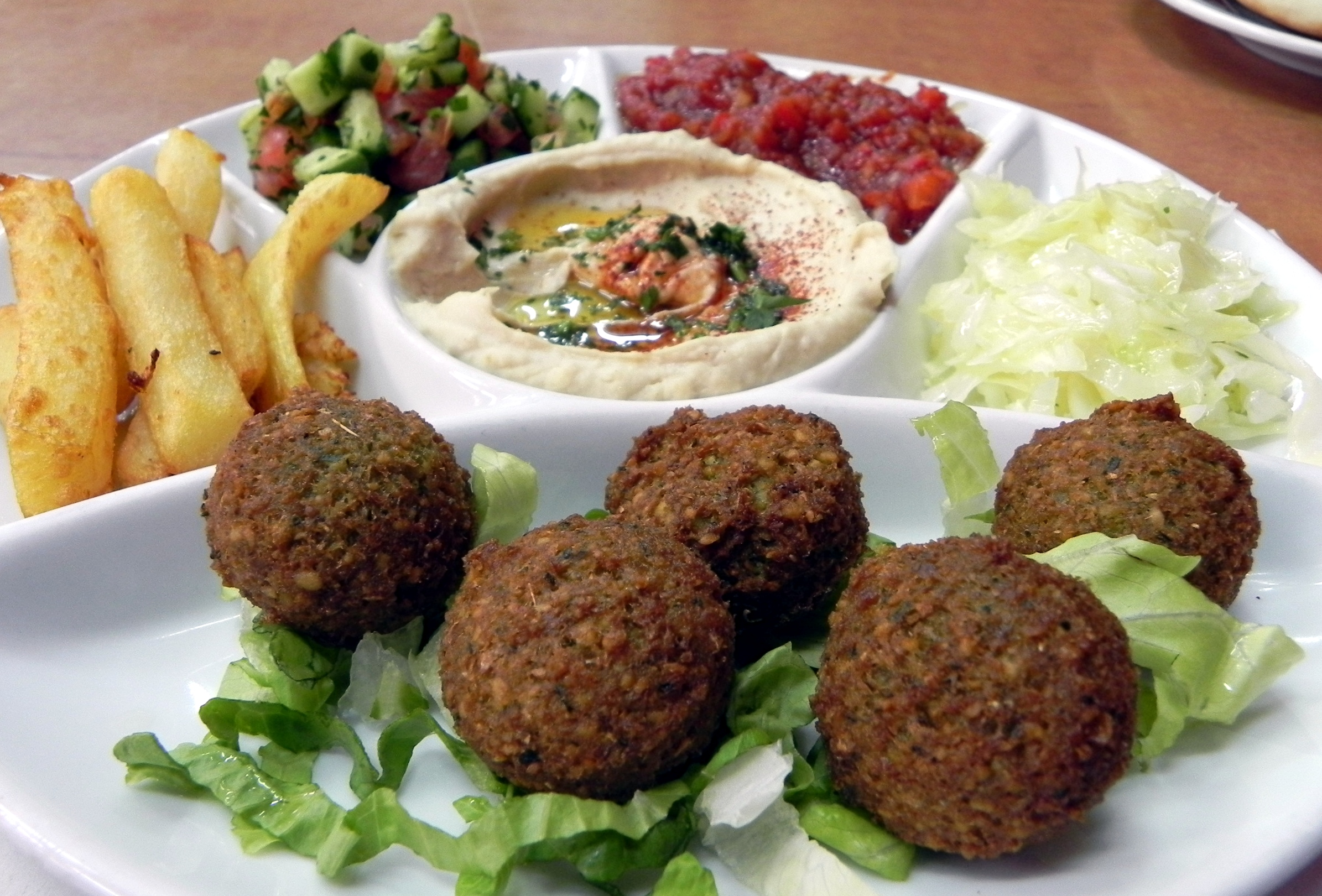 Israeli cuisine